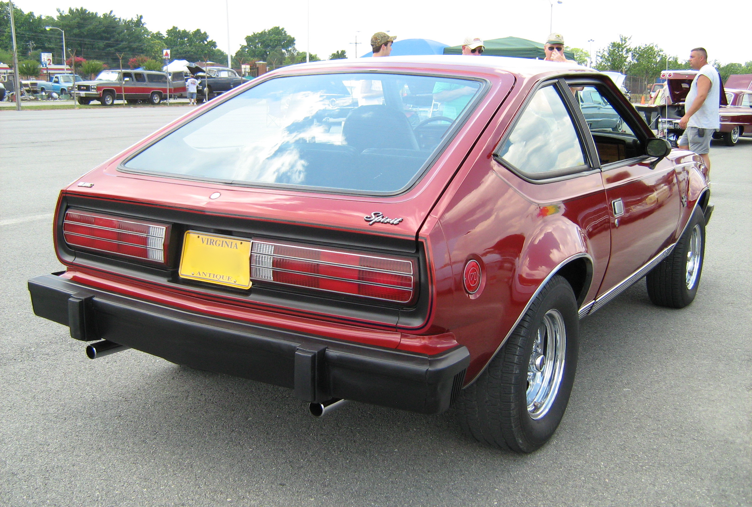 1979 AMC Spirit GT. A subcompact 2-door liftback with factory 304 CID (5.0 L) V8 engine and four-speed manual transmission. Finished in Russet Metallic.